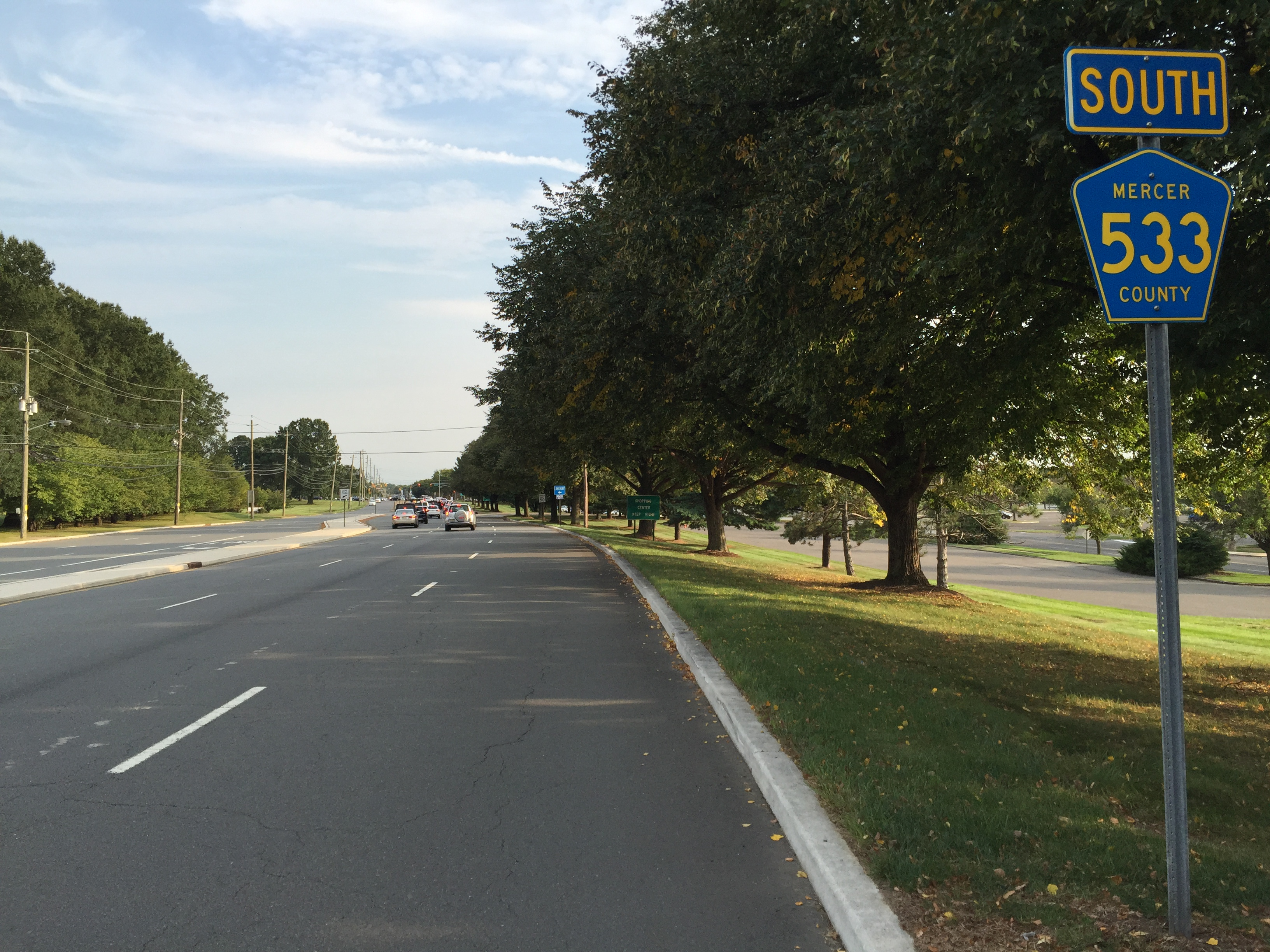 View south along Quakerbridge Road (Mercer County Route 533) just south of U.S. Route 1 (Brunswick Pike) along the border of West Windsor Township and Lawrence Township in Mercer County, New Jersey